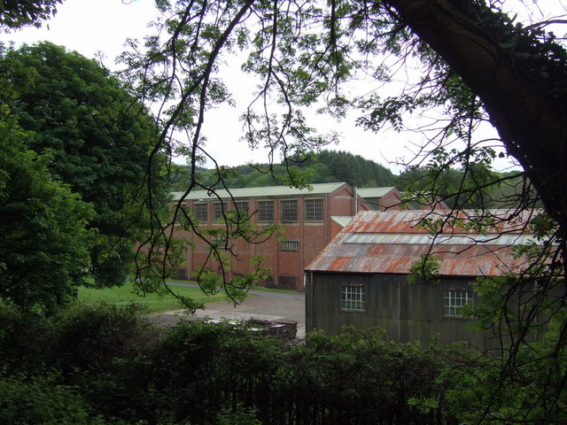 Old naval depot In this quiet and leafy setting the buildings of the former naval depot look sinister and forbidding. This valley was pronounced by the C18 local historian Richard Fenton as the most beautiful in Pembrokeshire but it has been inaccessible to the public since 1939 when it was taken over by the navy for the storage, proving and testing of mines and munitions. These blast-proof sheds complement 58 underground tunnels served by narrow-gauge rail tracks. Decommissioned in 1994, the facility is now privately owned. Further information and pictures can be found here